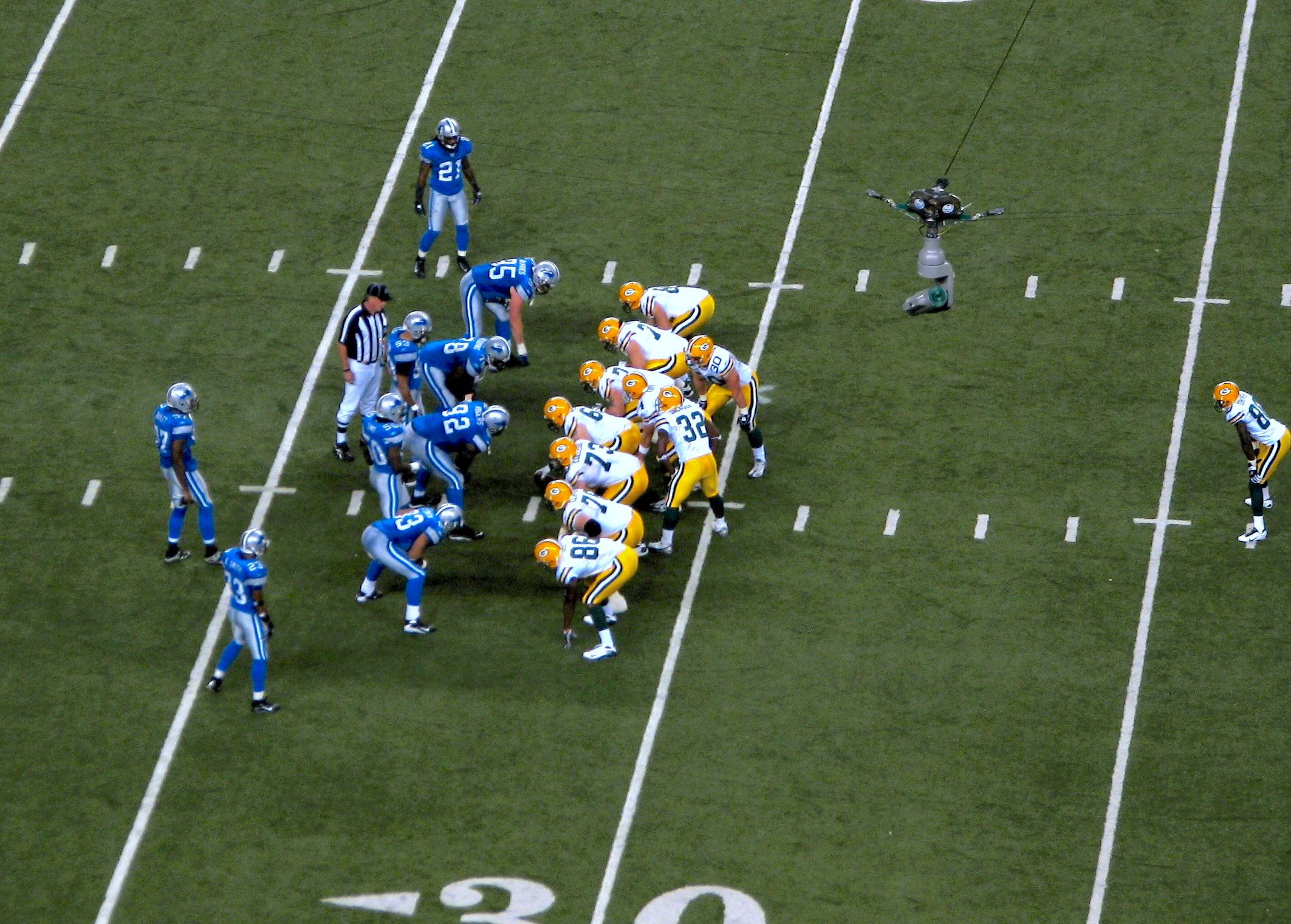 Brett Favre prepares to kneel down and end Green Bay's 37-26 Thanksgiving Day victory over Detroit, the 157th win of his career. John Elway is second with 148.